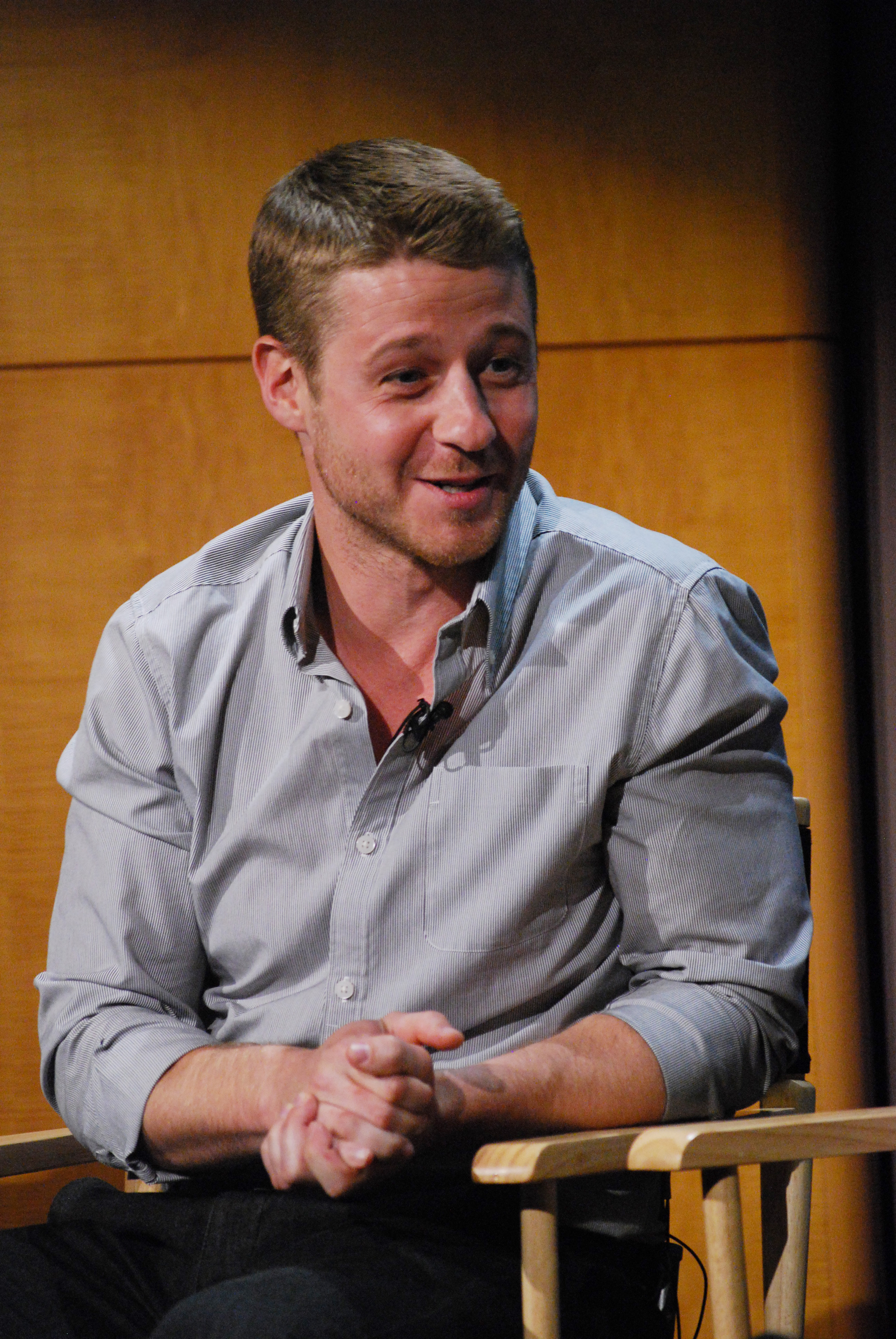 American actor and producer Benjamin McKenzie at an event entitled An Evening with Southland at the Paley Center for Media in New York City, New York, USA.